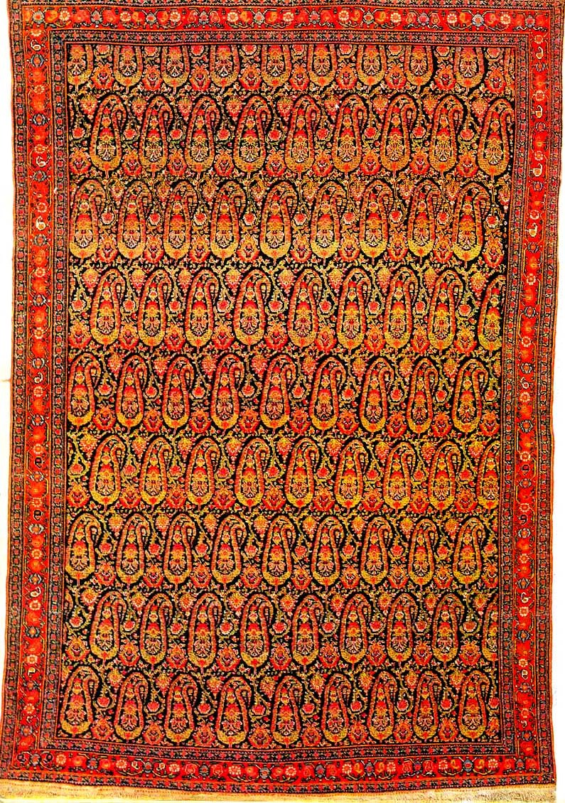 Sarabi rug, Ardebil school, XVIII c.